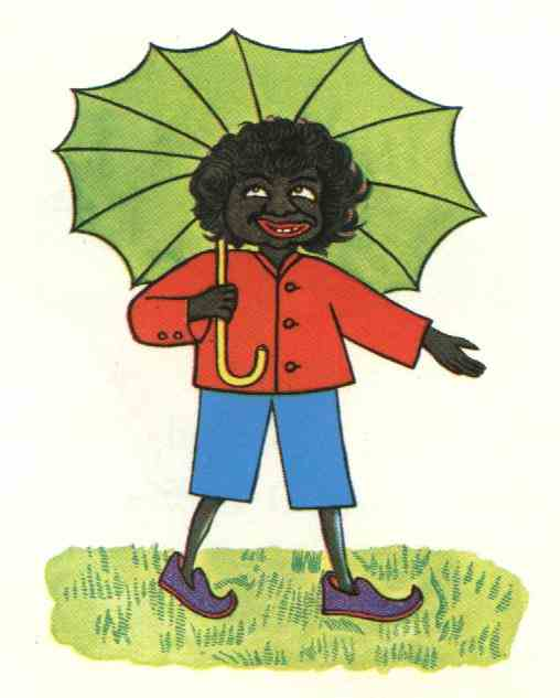 Little Black Sambo from the cover of Little Black Sambo 1899. Color lithograph.